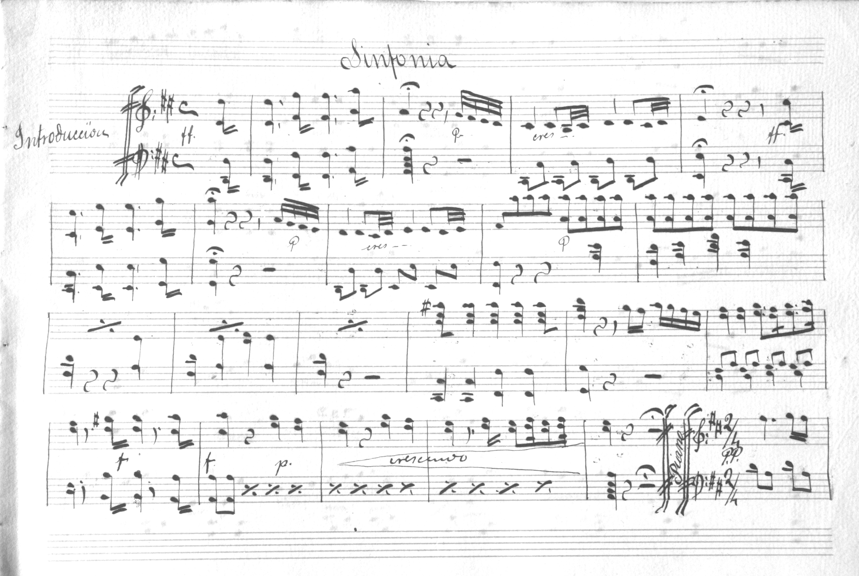 Symphony by Carles Baguer in a piano transcription